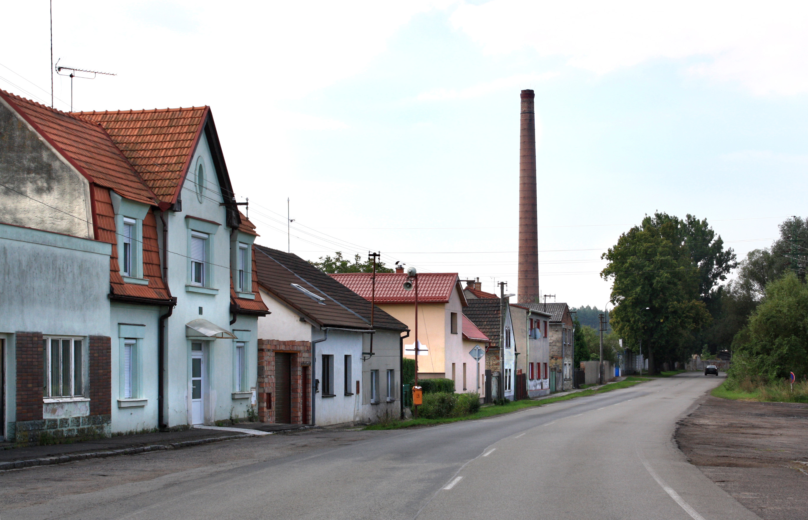 Rudé armády street in Brodce, Czech Republic